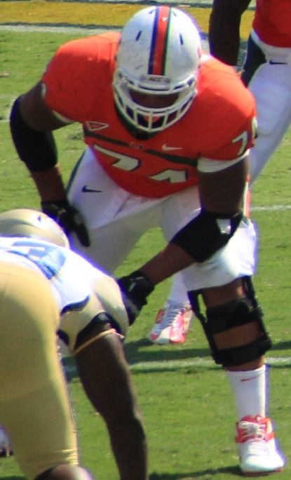 Ereck Flowers in 2012